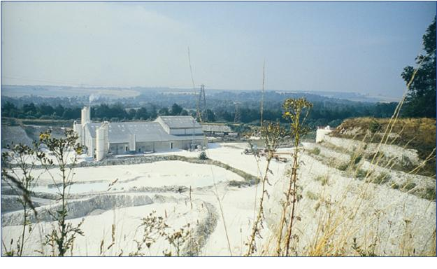 Quidhampton Chalk Quarry, Wiltshire. Produces finely ground chalk and marble based products by dry mining and then grinding in water